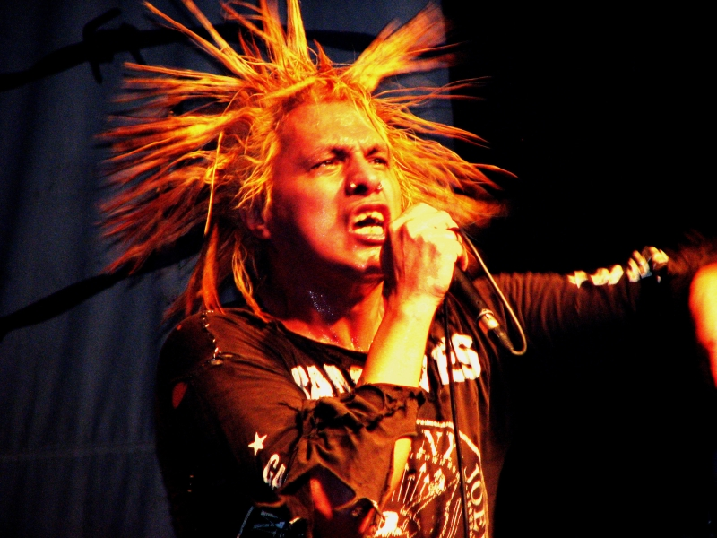 The Casualties, New York punk band, during "Under Attack. European Tour 2007" gig in Polish city Gdynia.